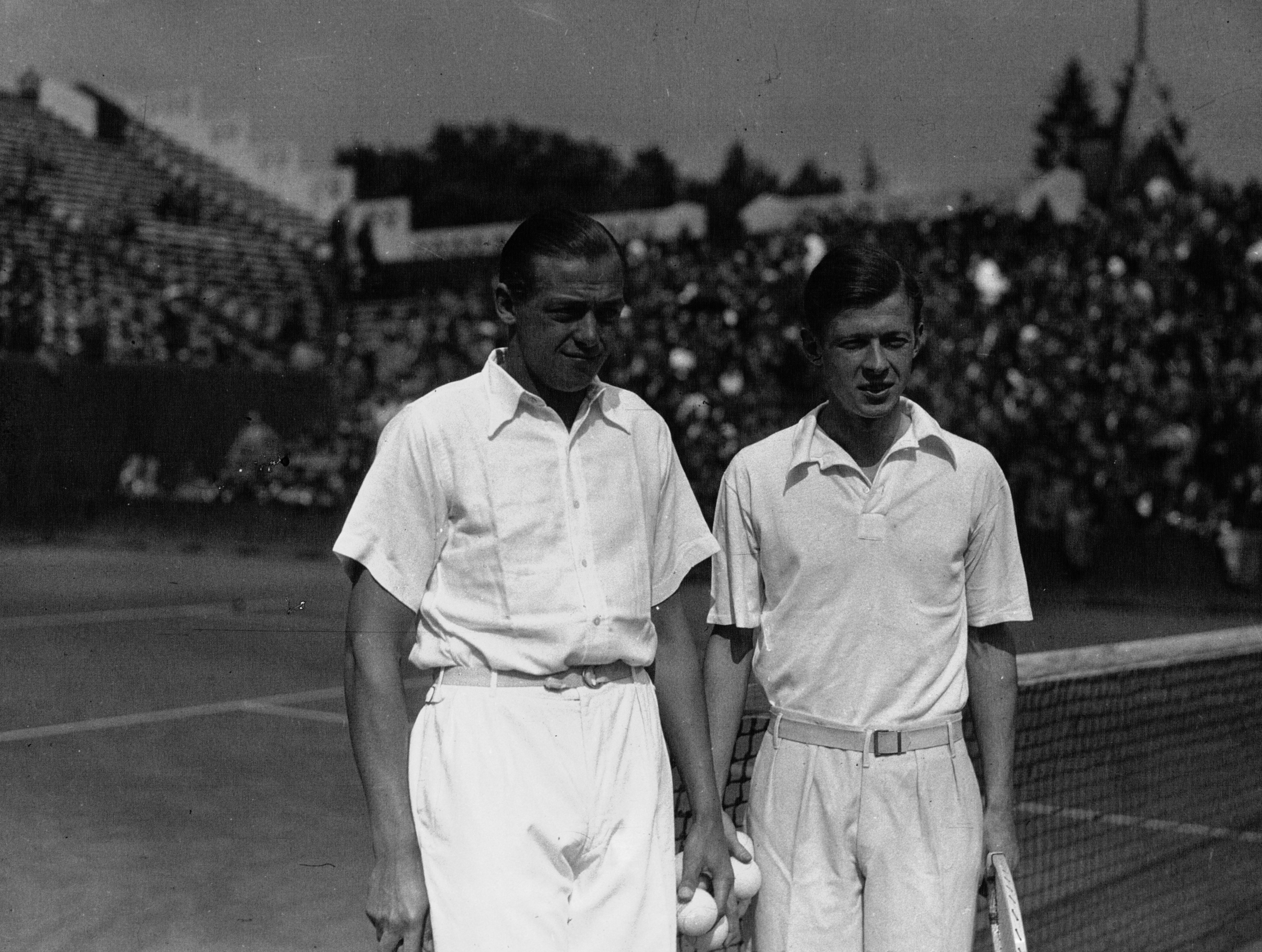 German tennis player Gustav Jaenecke (left) and French tennis player Christian Boussus (right) at the Stade Roland Garros in 1932.